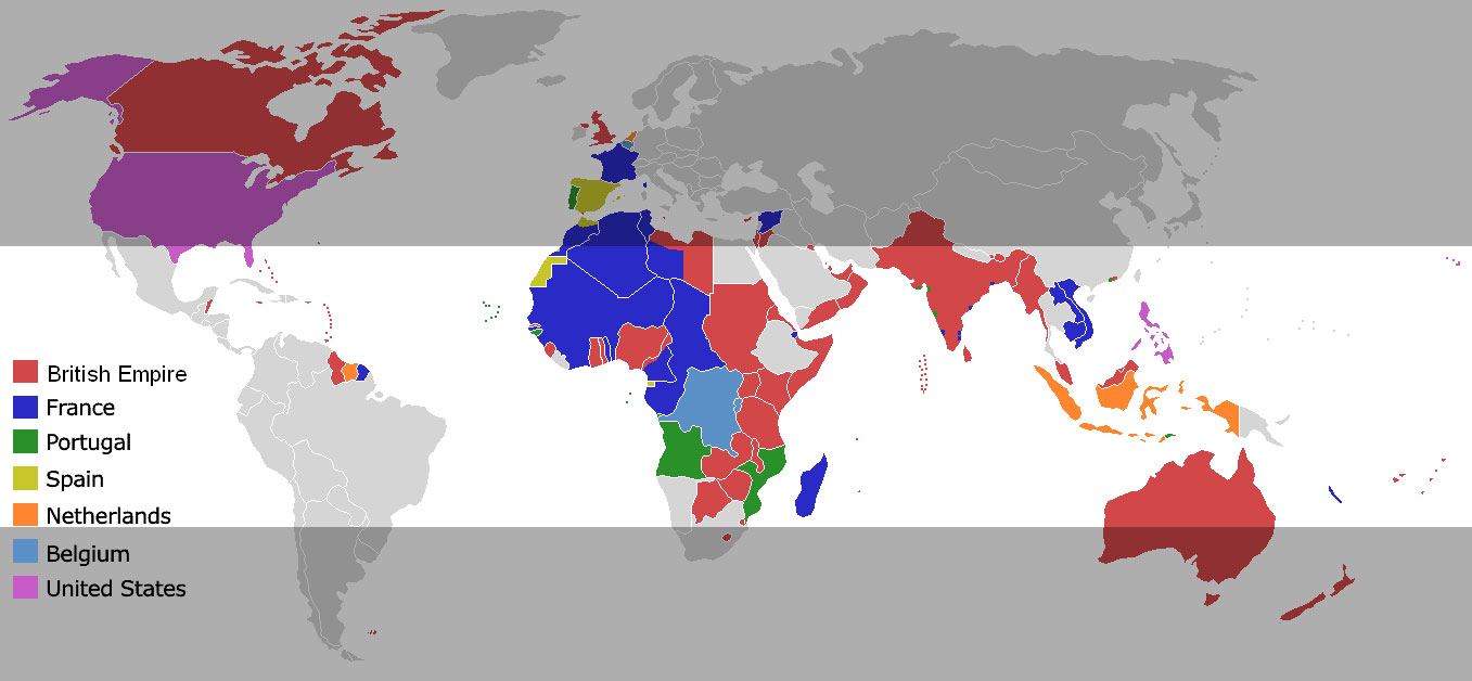 A modified version of "Image:Colonization 1945.png". "United Kingdom" is replaced by "British Empire" and Canada, Australia and New Zealand are included in order to show that though Canada, Australia and New Zealand were not colonies of or subordinate to the United Kingdom they did form a union with it. The author of "Image:Colonization 1945.png" gave it a GNU Free Documentation Licence.